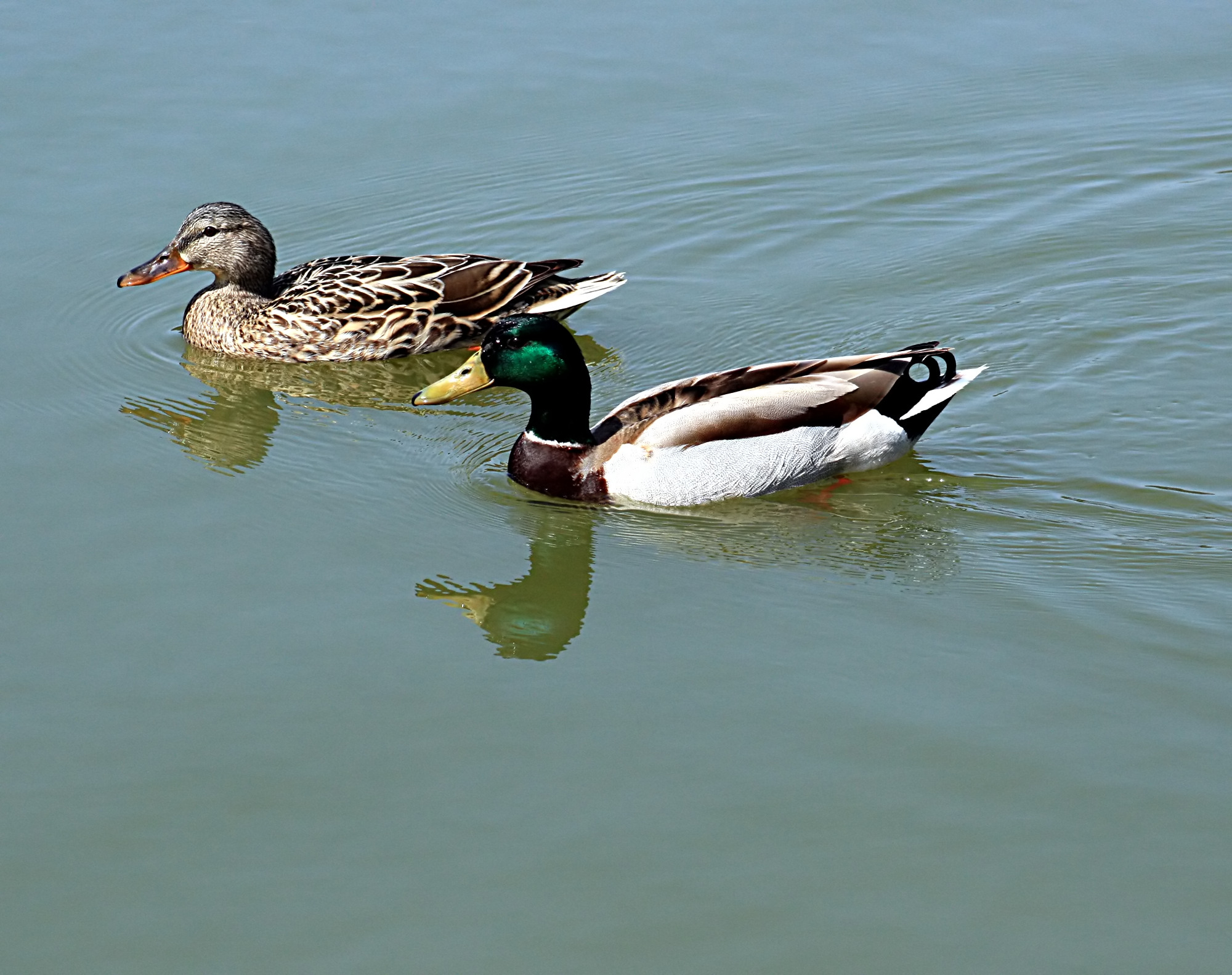 Male and female Mallard, Anas platyrhynchos